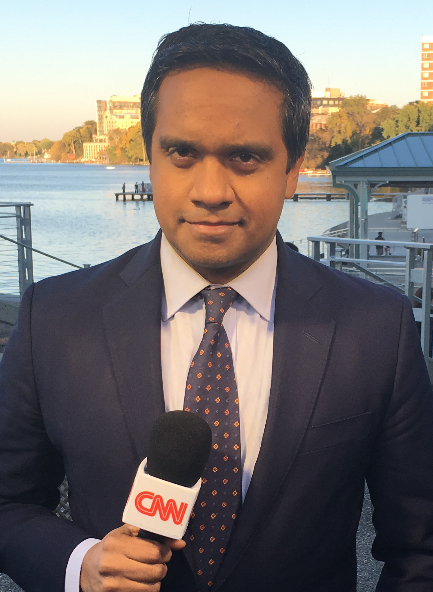 Manu Raju, reporting in 2016 on House Speaker Paul Ryan from Madison, Wis.